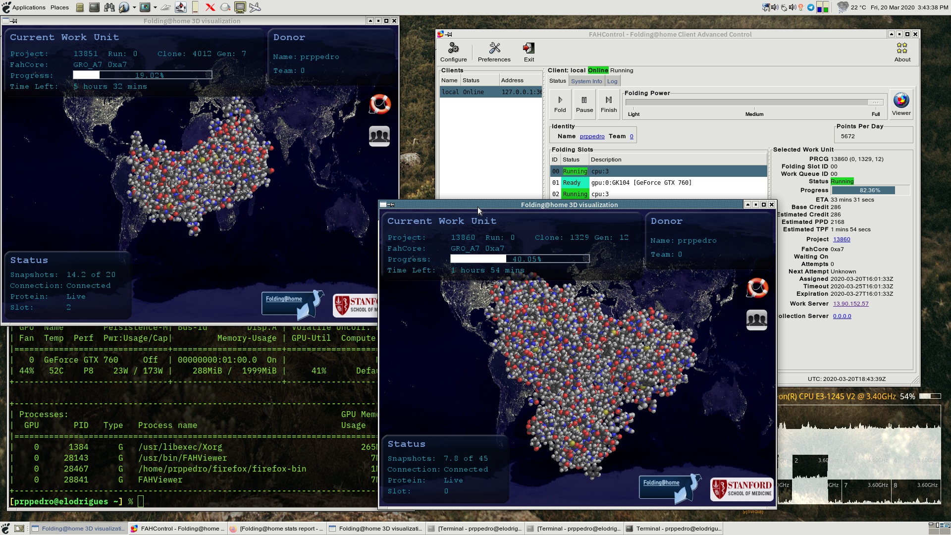 Folding@Home Viewer on foreground, FAH control and background, running FAH client under Fedora Workstation 28